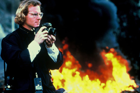 Photograph of Peter Turnley at West Bank 1993